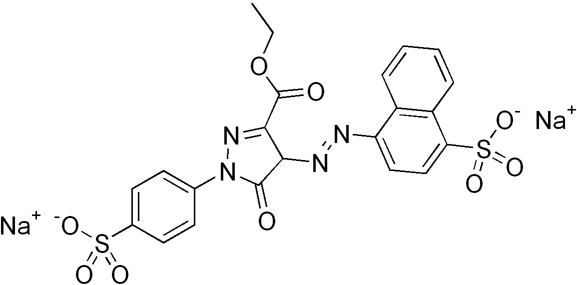 chemical structure of Acid Orange 137 (Orange B)